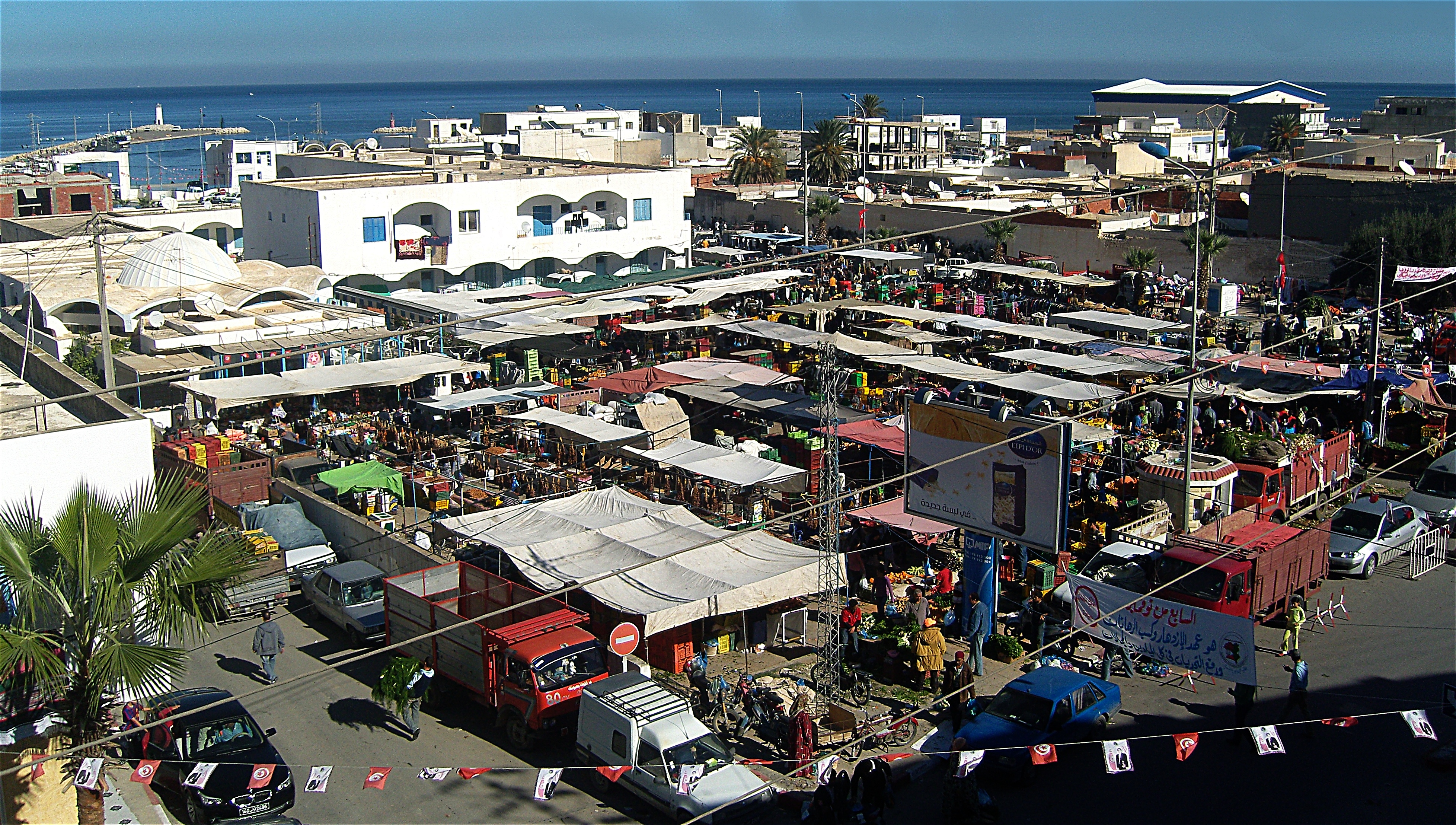 Market of Sayada in Tunisia